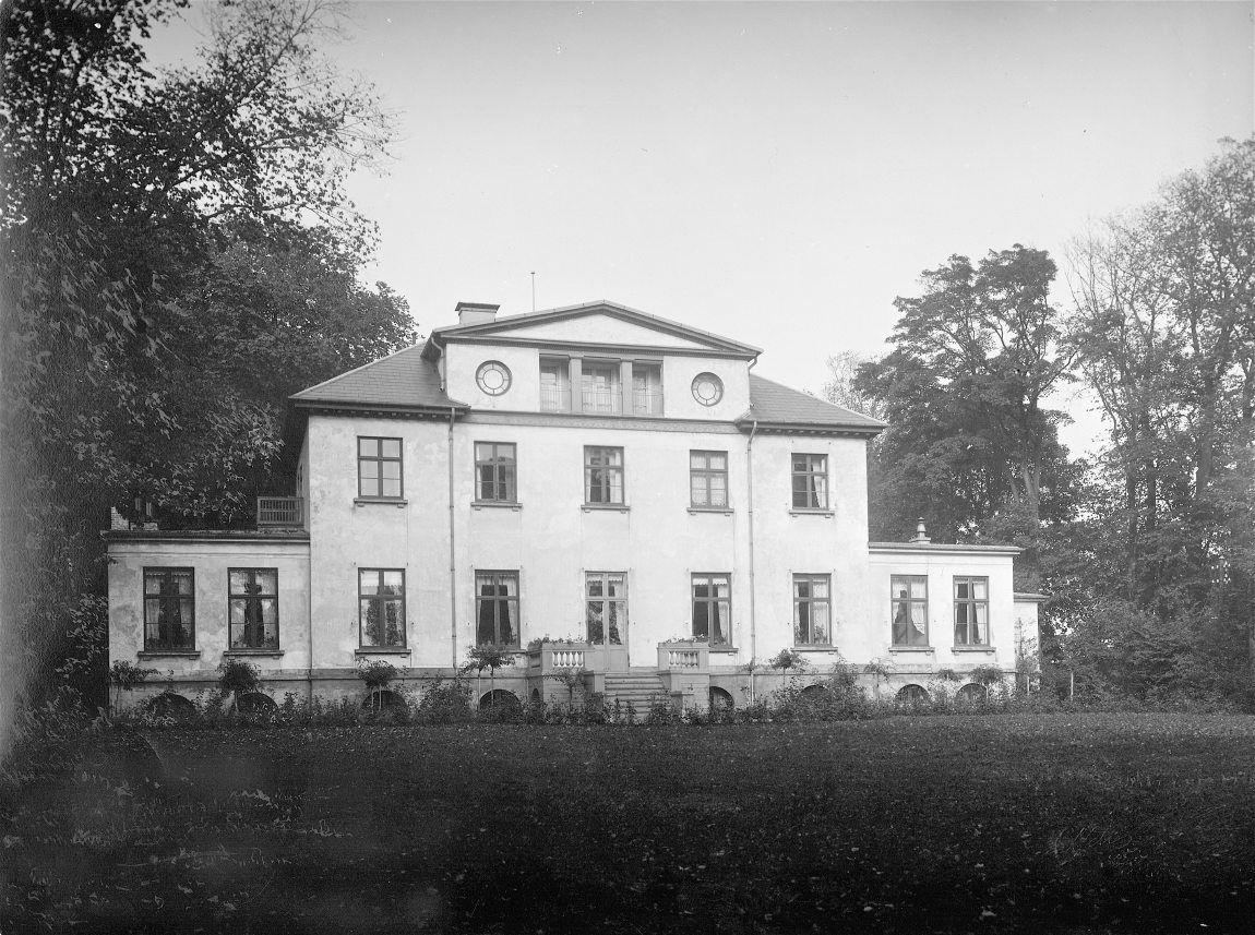 The country houses Søholm in E,drup, Copenhagen, Denmark